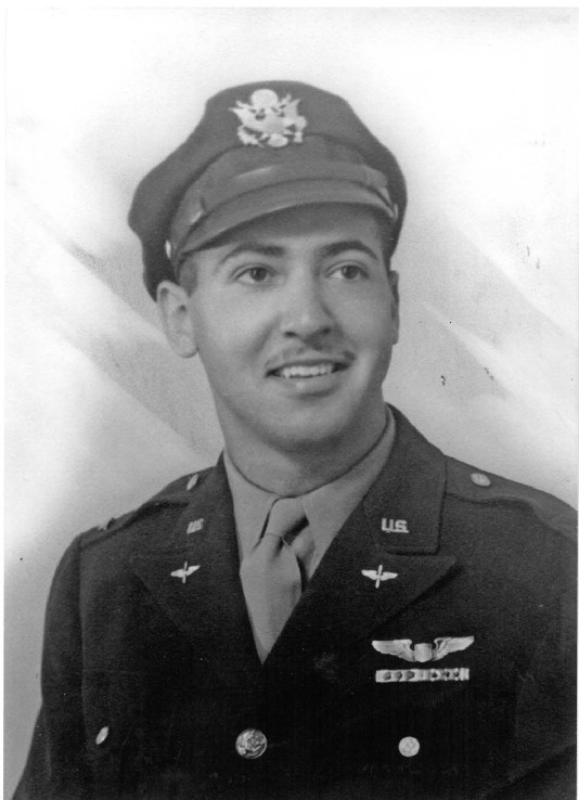 SAM FELDMAN was an Aviator during the 2nd WW and a volunteer in the Israeli Airforce during the war of independance